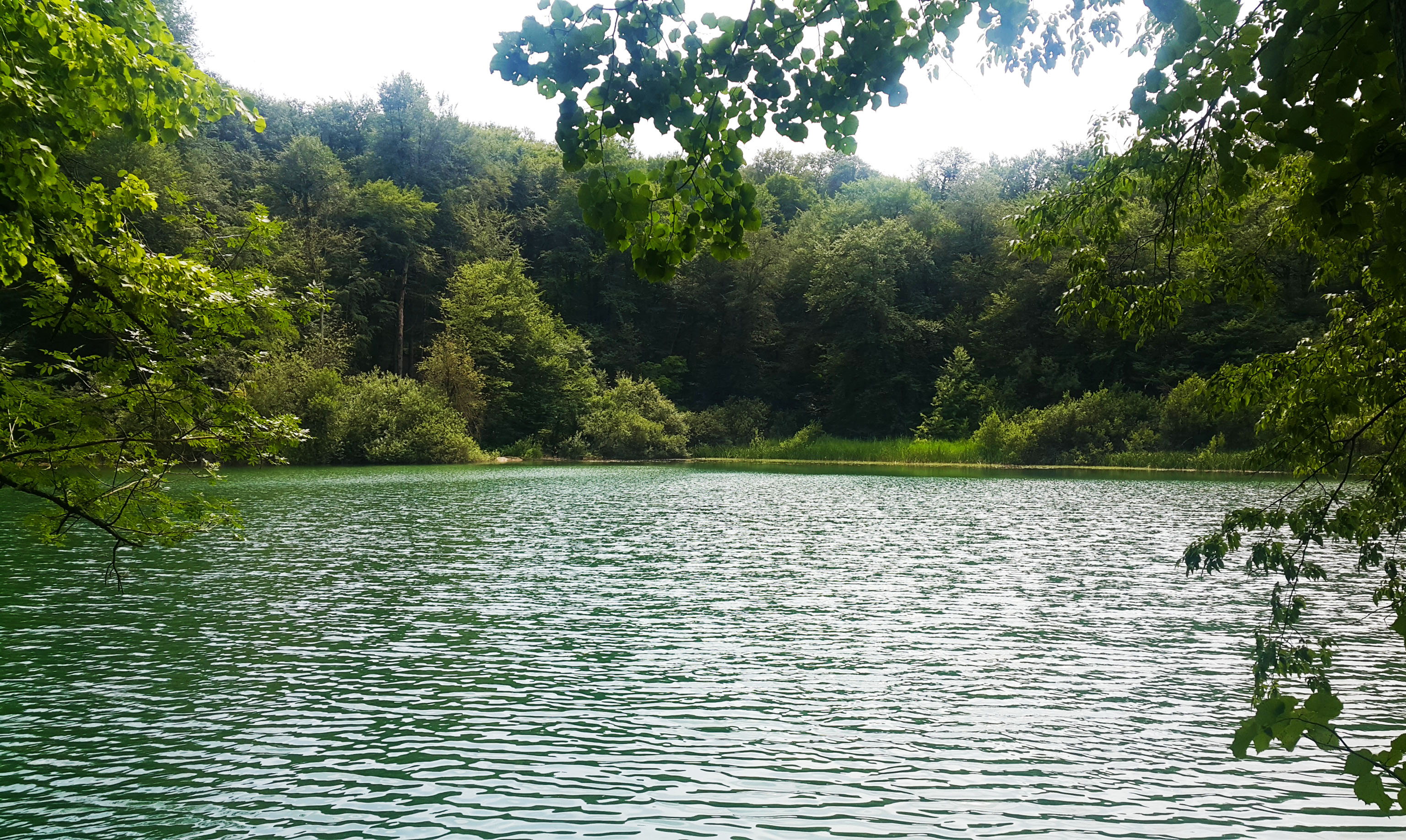 Anbil (Ambil) lake in Zeyva village, Shabran rayon, Azerbaijan